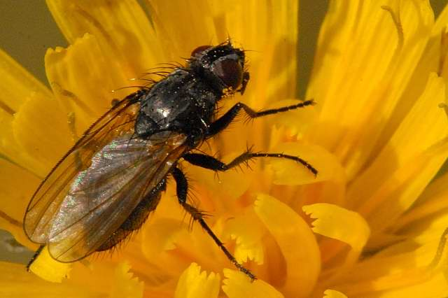 Fannia lustrator from Commanster, Belgian High Ardennes .